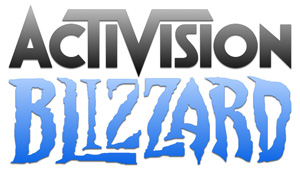 Logo of Activision Blizzard.